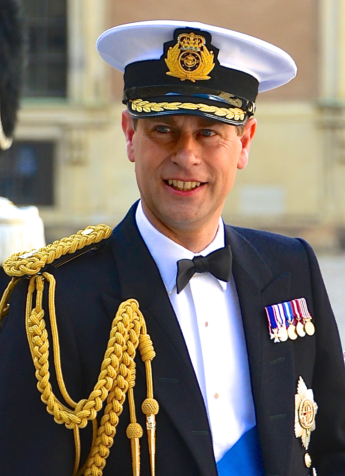 Prince Edward, Earl of Wessex on the way to the castle church at the Royal Palace in Stockholm before the wedding between Princess Madeleine and Christopher O'Neill June 8, 2013.